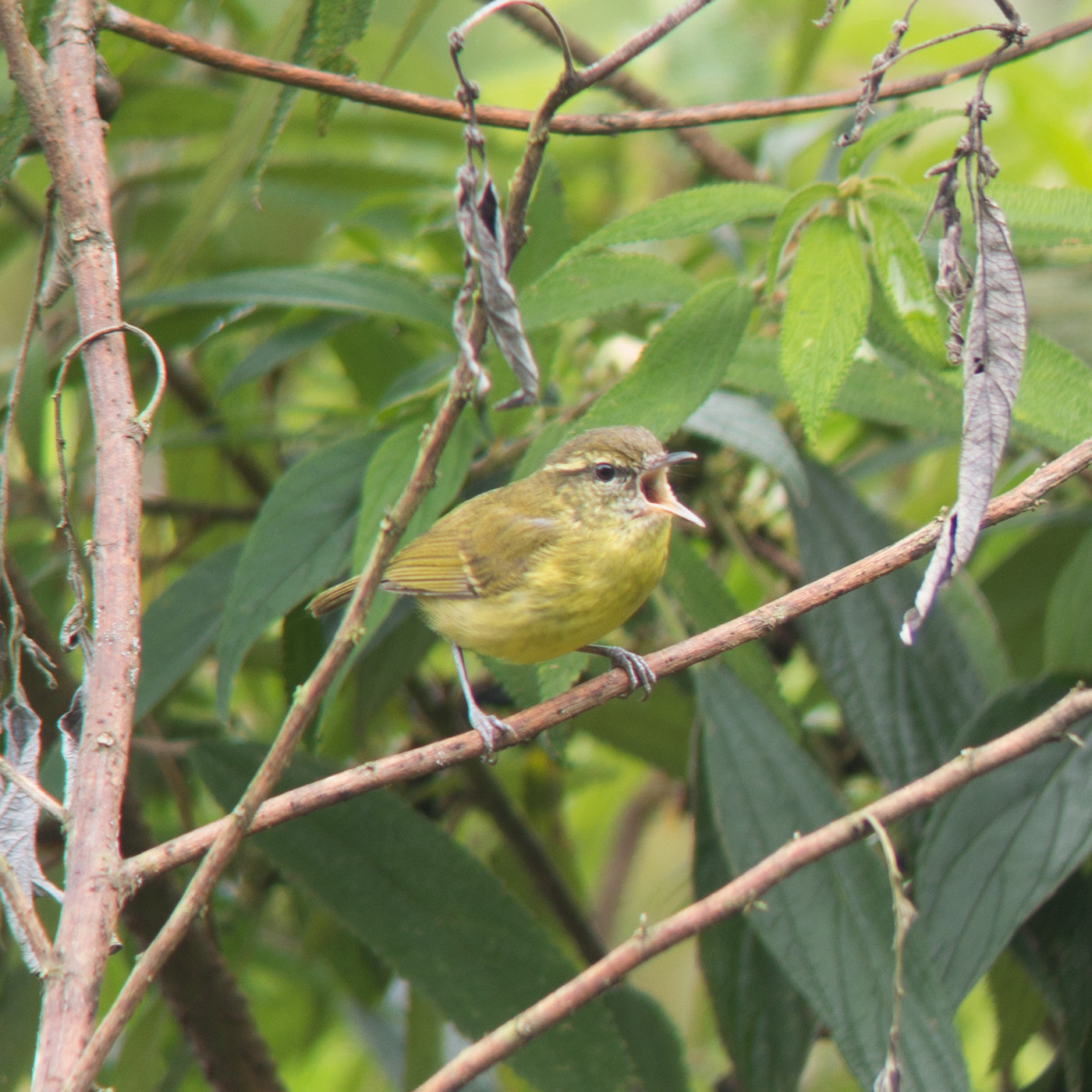 Negros Leaf Warbler (Phylloscopus nigrorum), San Fernando, Cordillera Administrative Region, Philippines